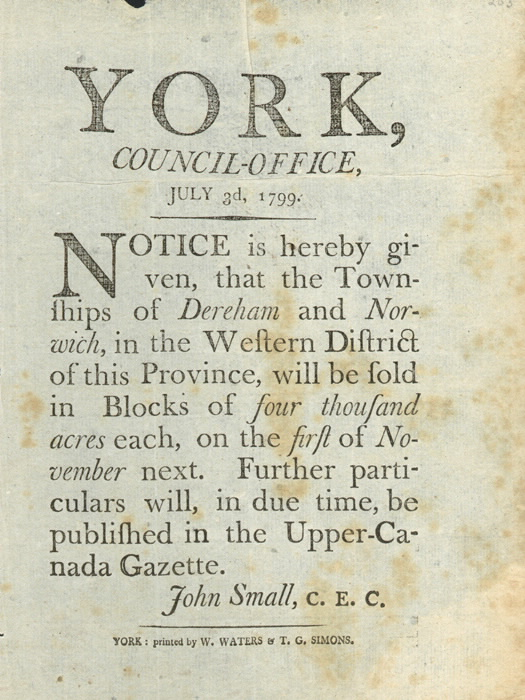 advertisement of future sale of lands in 1799